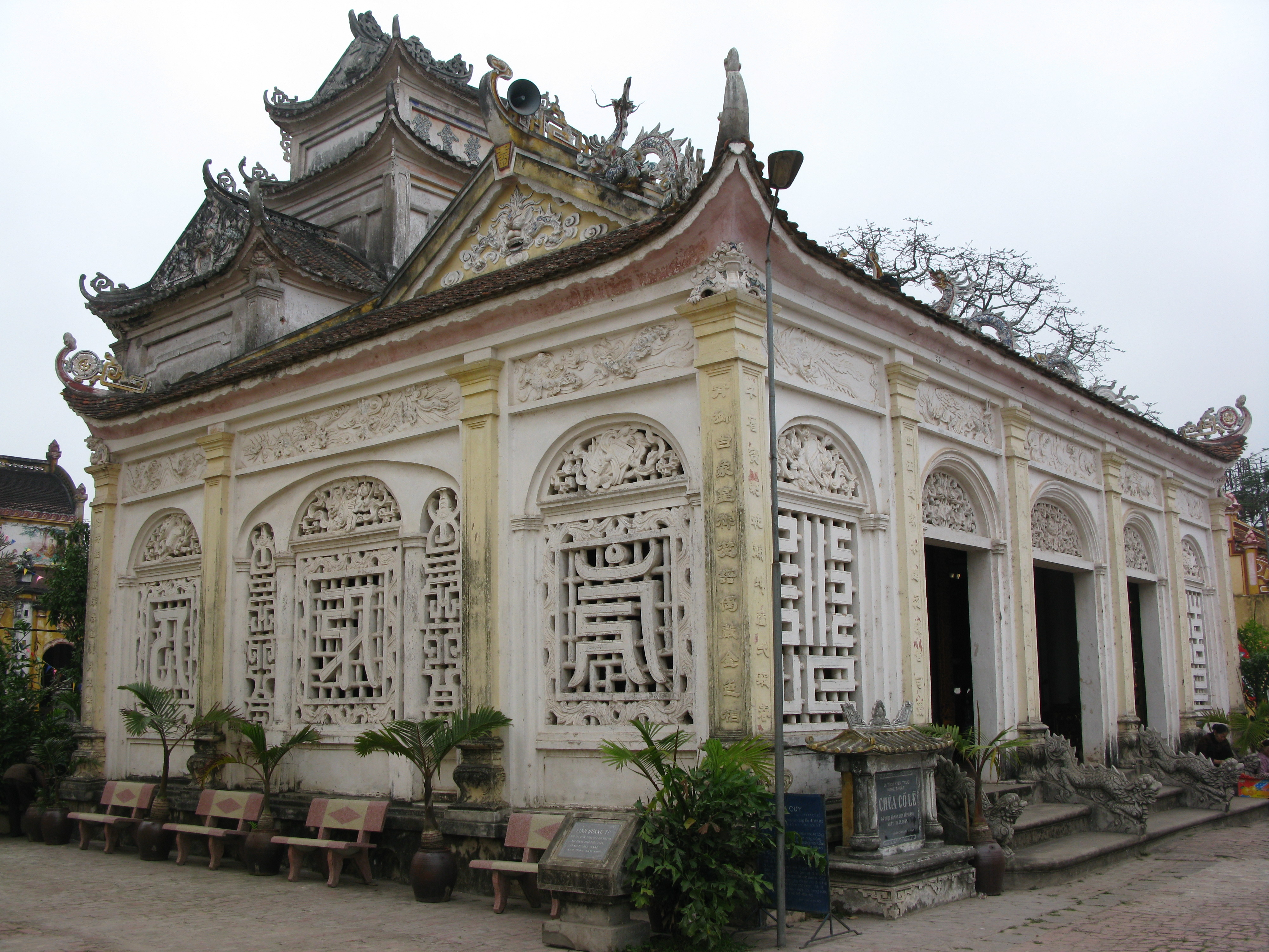 Trình Pagoda (or Phật giáo hội quán) in Cổ Lễ Pagoda, Cổ Lễ Township, Trực Ninh District, Nam Định Province, Việt Nam.